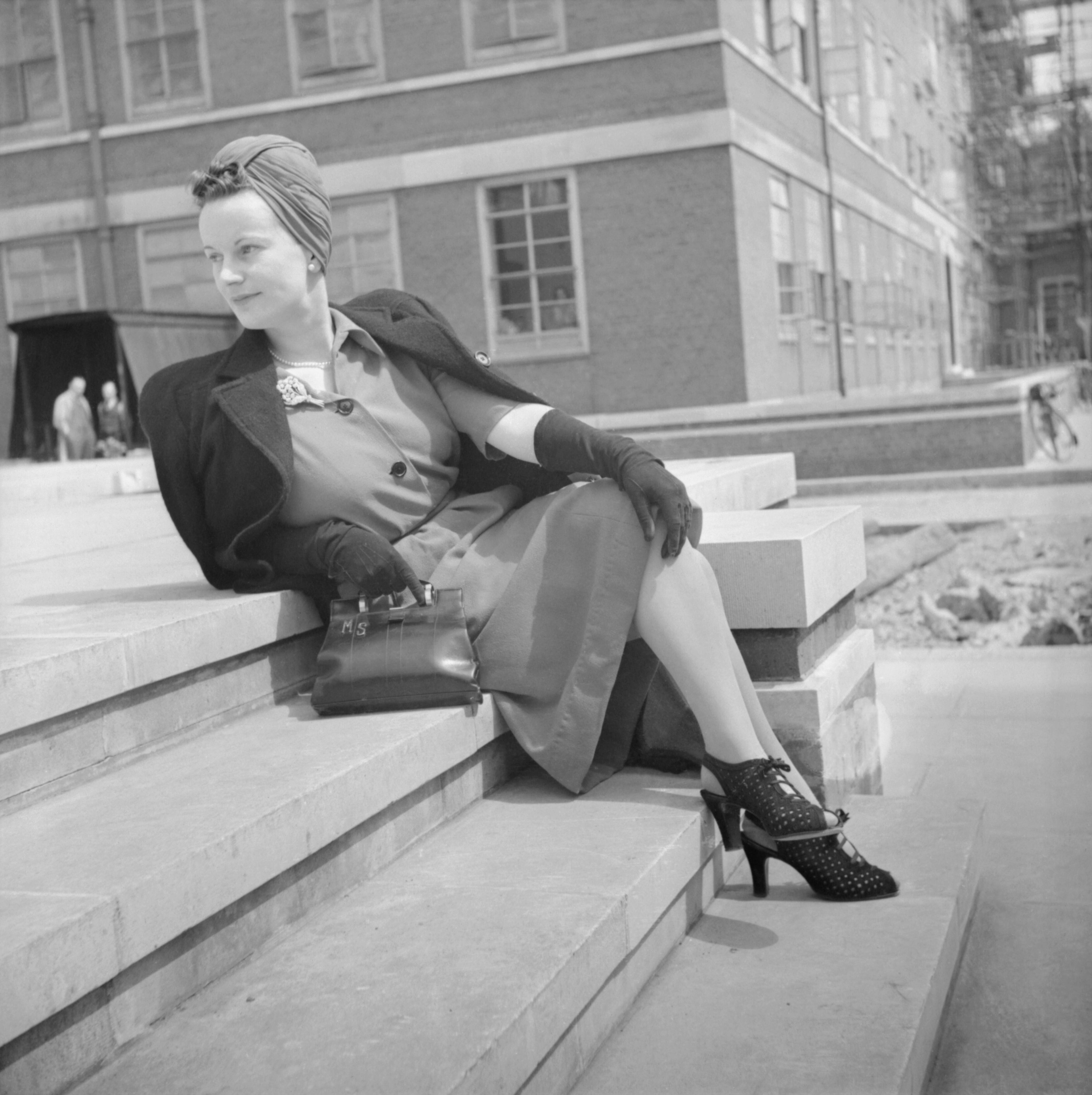 How a British Woman Dresses in Wartime- Utility Clothing in Britain, 1943 A model sits on a flight of steps to show off her scarlet wool Utility frock by Dorville at John Lewis and Co. Ltd., with front-gathered skirt and shirt-waist top (cost: 11 coupons and 60/-). She is also wearing a scarlet silk jersey turban and black suede gloves and shoes. Her ensemble is complete with the addition of a black wool Utility topcoat by Harella, costing 18 coupons and 90/9d. This dress is also featured in D 14782 but worn with different accessories to illustrate the versatility of the garment.